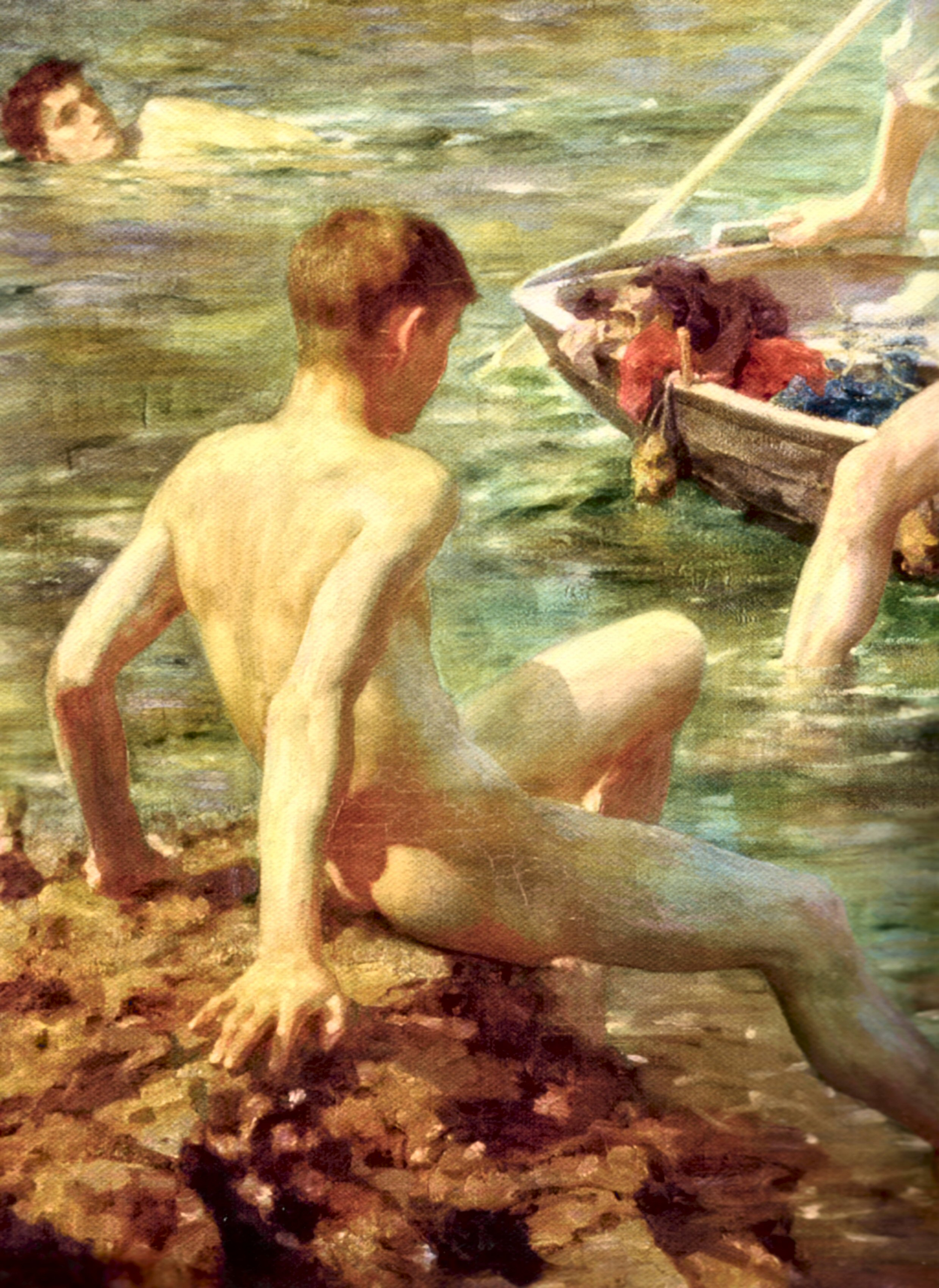 A detail from Ruby, Gold and Malachite by Henry Scott Tuke, the model is Charlie Mitchell (1885 – 1957). Mitchell was Tuke's chief boatman and a regular model for many years.